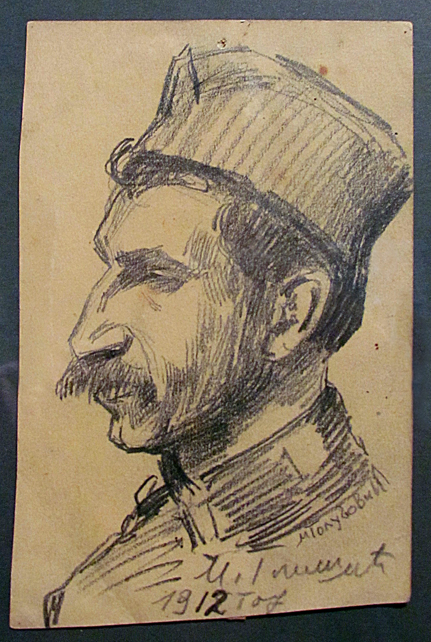 Milos Golubovic, Portrait of Malisa Glisic, 1012. National Museum, Belgrade